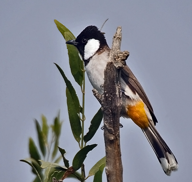 White-eared Bulbul Pycnonotus leucotis at Hodal in Faridabad District of Haryana, India.